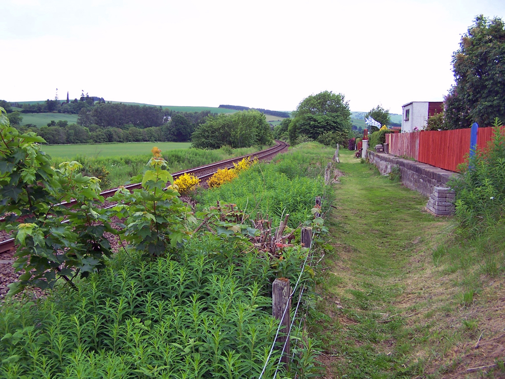 Site of Conon Bridge station. The railway is the Inverness to Wick and Thurso line, which opened in 1862. This photograph is taken from the end of Station Road, Conon Bridge. The station here closed in June 1960. What looks to be a former platform is on the right, and is now part of the back gardens of modern houses. If this was a platform - was there once a siding here? (See also File:Conon Bridge station (former) - .uk - 1925307.jpg ). Update: I have been contacted by Alasdair Cameron, who confirms "Yes, there were several sidings and a large goods shed". Thank you for the information Mr Cameron.